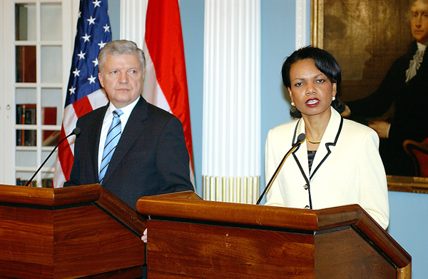 Ferenc Somogyi and Condoleezza Rice. Treaty Room, Washington, D.C.